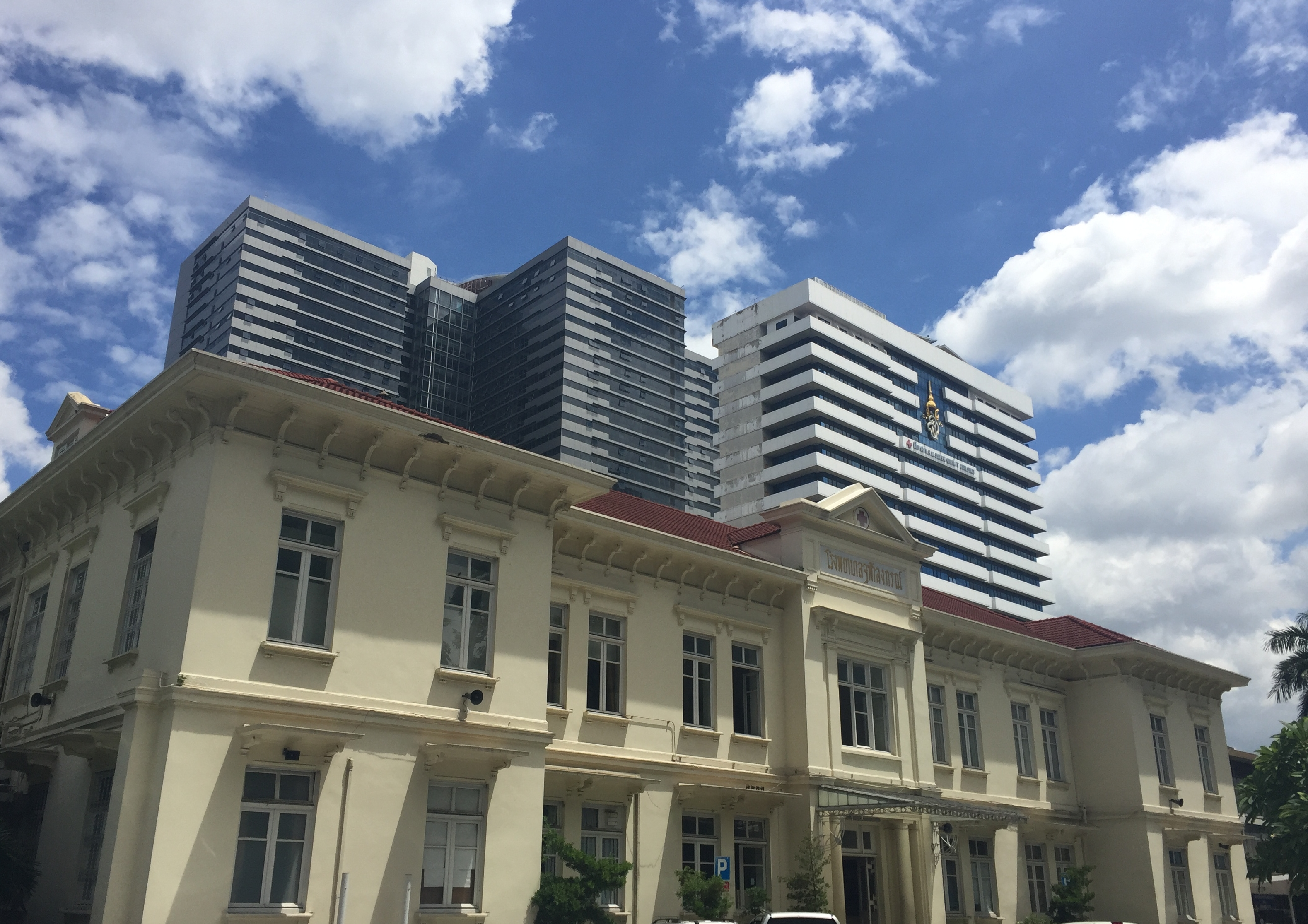 Bhumisiri Mangkhalanusorn Building in King Chulalongkorn Memorial Hospital